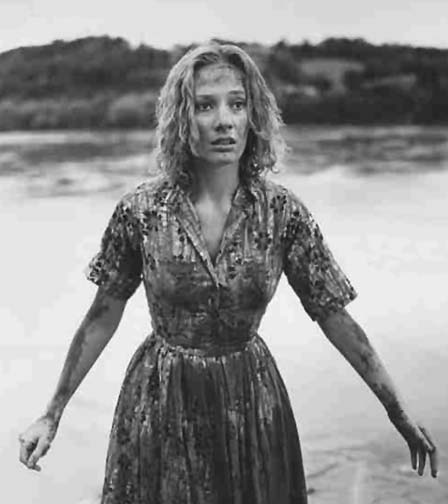 Candace Hilligoss still from Carnival of Souls